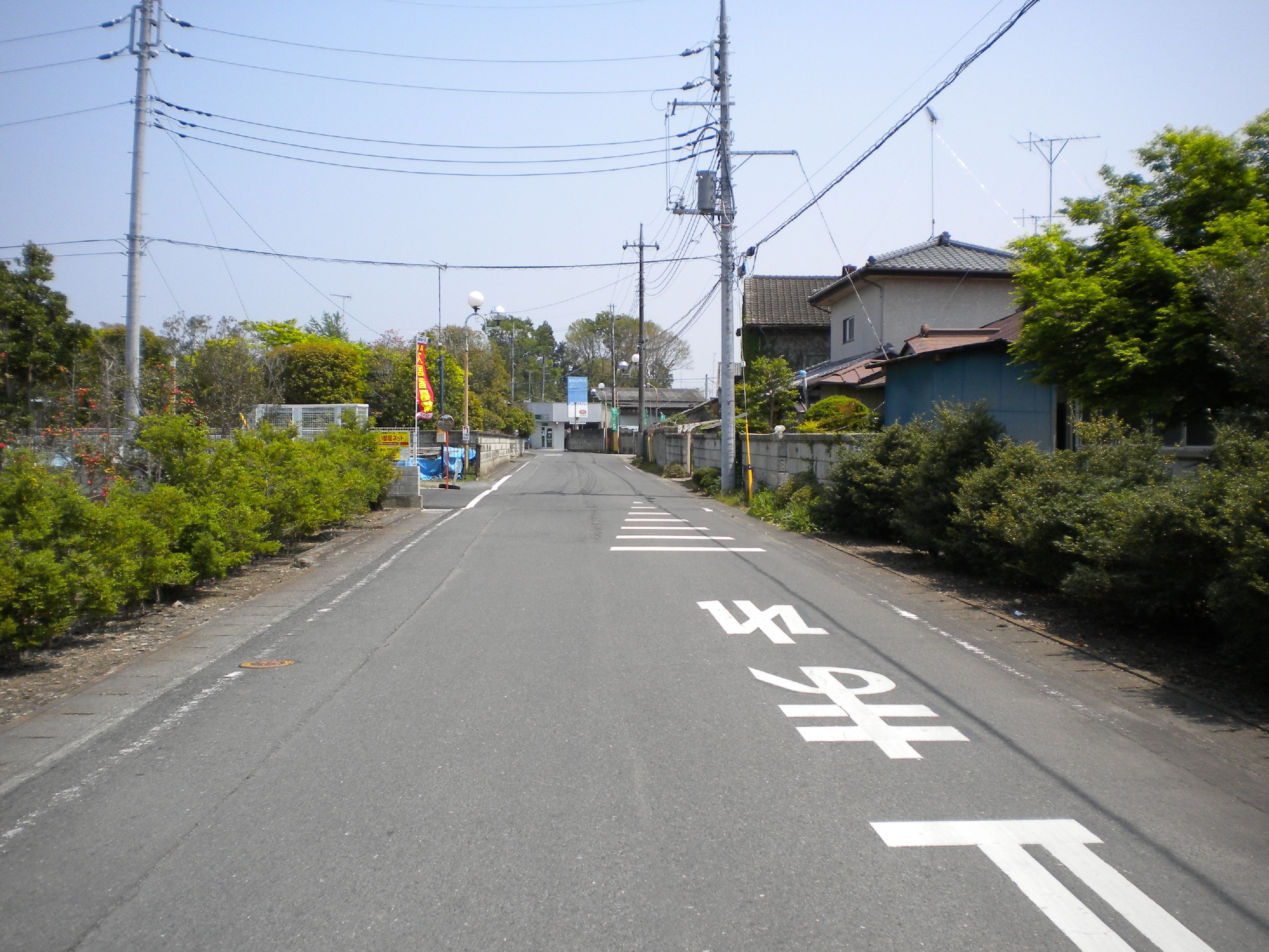 Tochigi prefectural road No.111 on Mashiko town